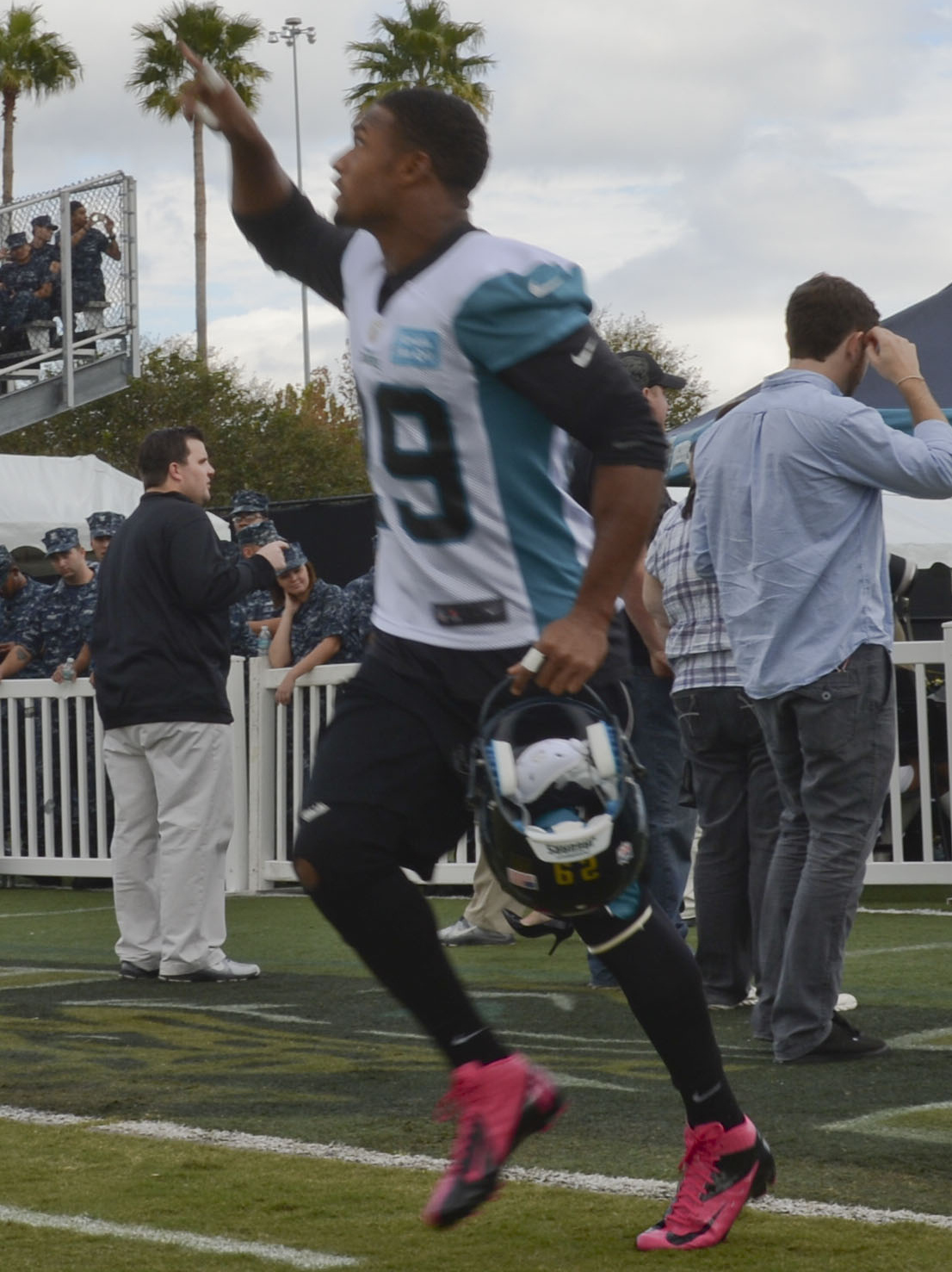 JACKSONVILLE, Fla. (Nov. 6, 2012) -- Jaguar's players William Middleton (left) and Dawan Landry (right) jog past more than 300 Sailors and Marines gathered in the EverBank Field practice facility as part of the city of Jacksonville's "Week of Valor". At a meet-and-greet following the practice, Sailors had the opportunity to approach players for autographs and photos. (U.S. Navy photo by Mass Communication Specialist Seaman Rob Aylward/Released)